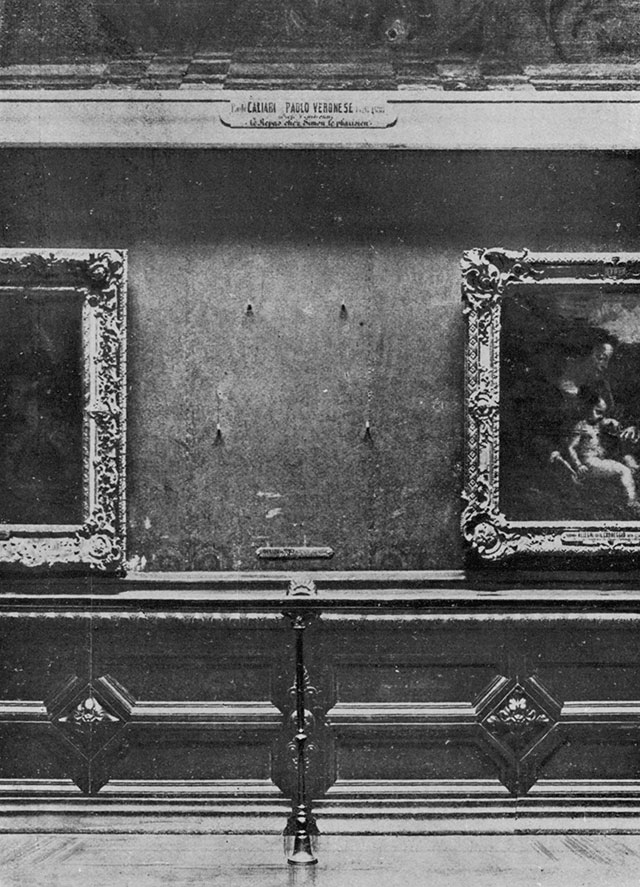 The Mona Lisa's vacant place in the Salon Carré, Louvre Museum, after having been stolen in 1911. Above the vacant wall space is Veronese's The Feast at the House of Simon (now in the Museum of Château de Versailles), on one side, Titian's Allegory painted for Alfonso d'Avalos, and on the other Correggio's 'Betrothal of St. Catharine [Catherine] of Alexandria'.